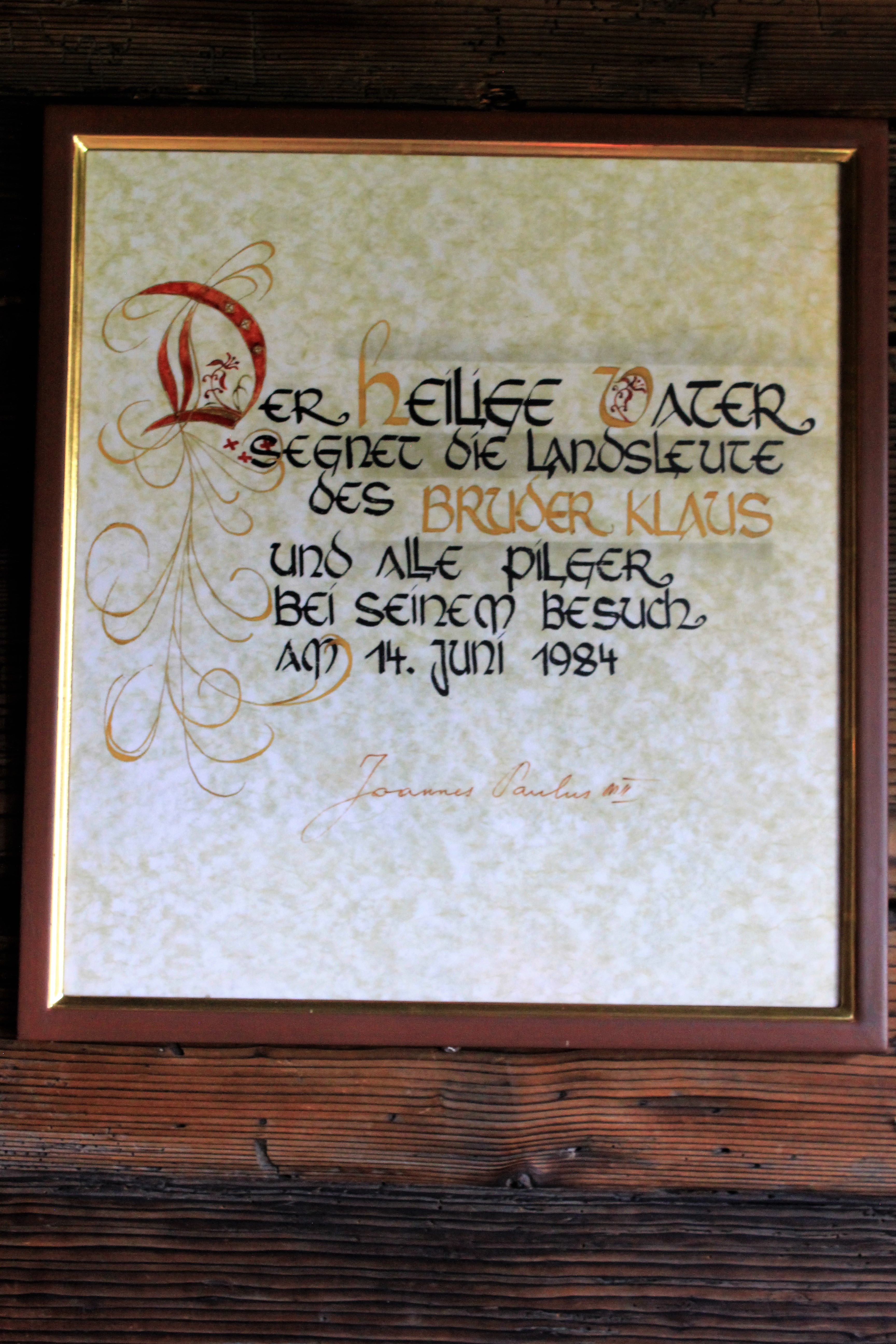 A plate containing a blessing by Pope John Paul II who has visited the house of Nicholas of Flüe in 1984.